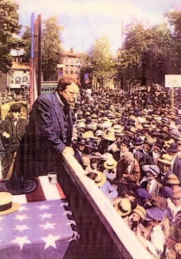 1912 US colorized postcard showing Theodore Roosevelt speaking to crowd.